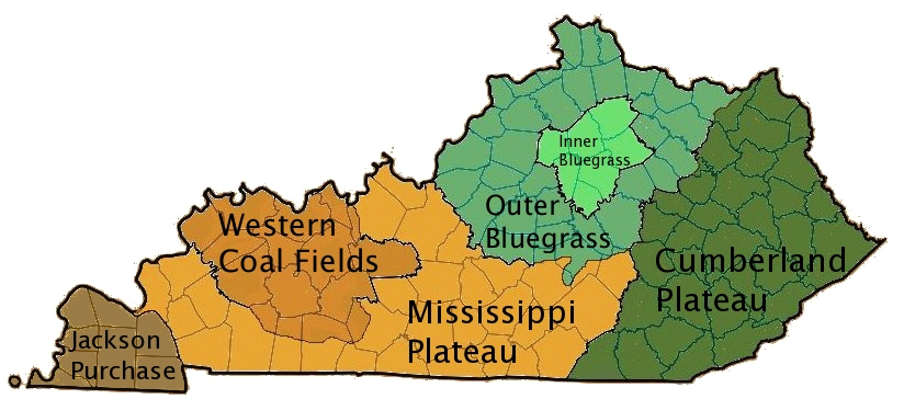 I created this image using Wikipedia's map of Kentucky counties. Dark green - Eastern Kentucky Coal fields (Cumberland Plateau) Green - Outer Bluegrass Light green - Inner Bluegrass Light brown - Mississippi (Pennyroyal) Plateau Brown - Western Kentucky Coal Field Dark brown - Jackson Purchase / Gulf Coastal Plain